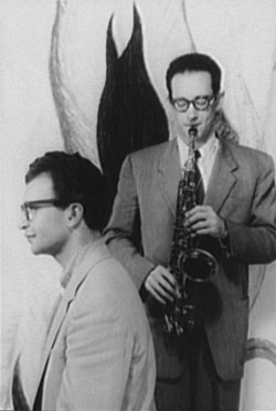 Portrait of Dave Brubeck and Paul Desmond